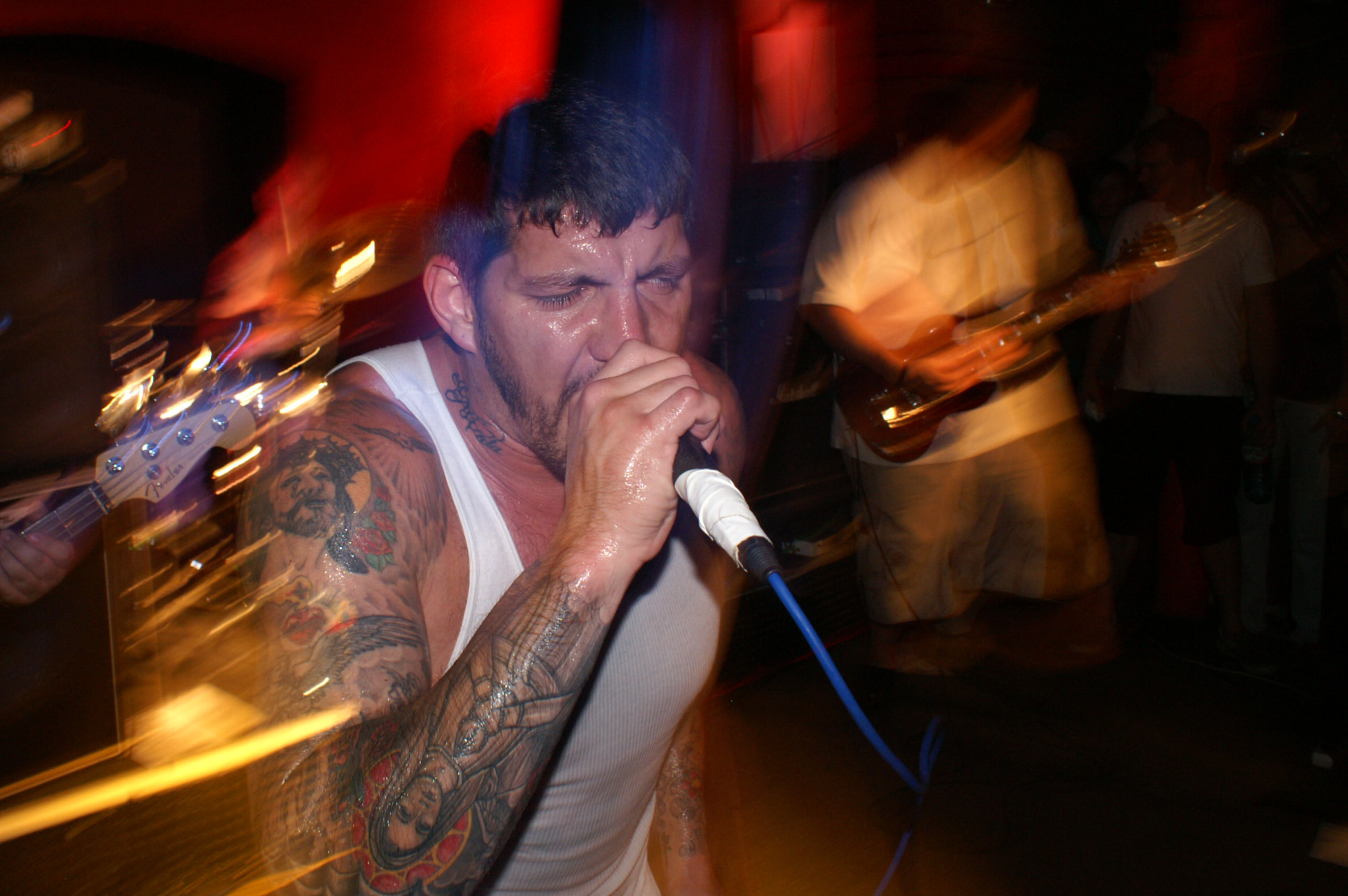 Vocalist and leader of Madball, hardcore band. Freddy Cricien. Gig in Bielsko-Biala, Poland, 2006